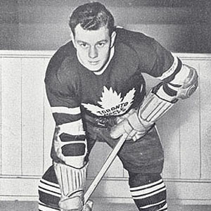 Bud Poile wearing a Toronto Maple Leafs jersey.